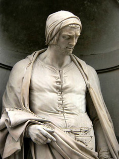 A statue of the architect and sculptor Nicola Pisano